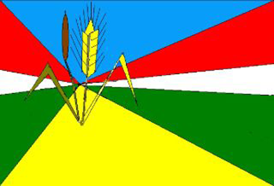 Flag of Izmail Raion